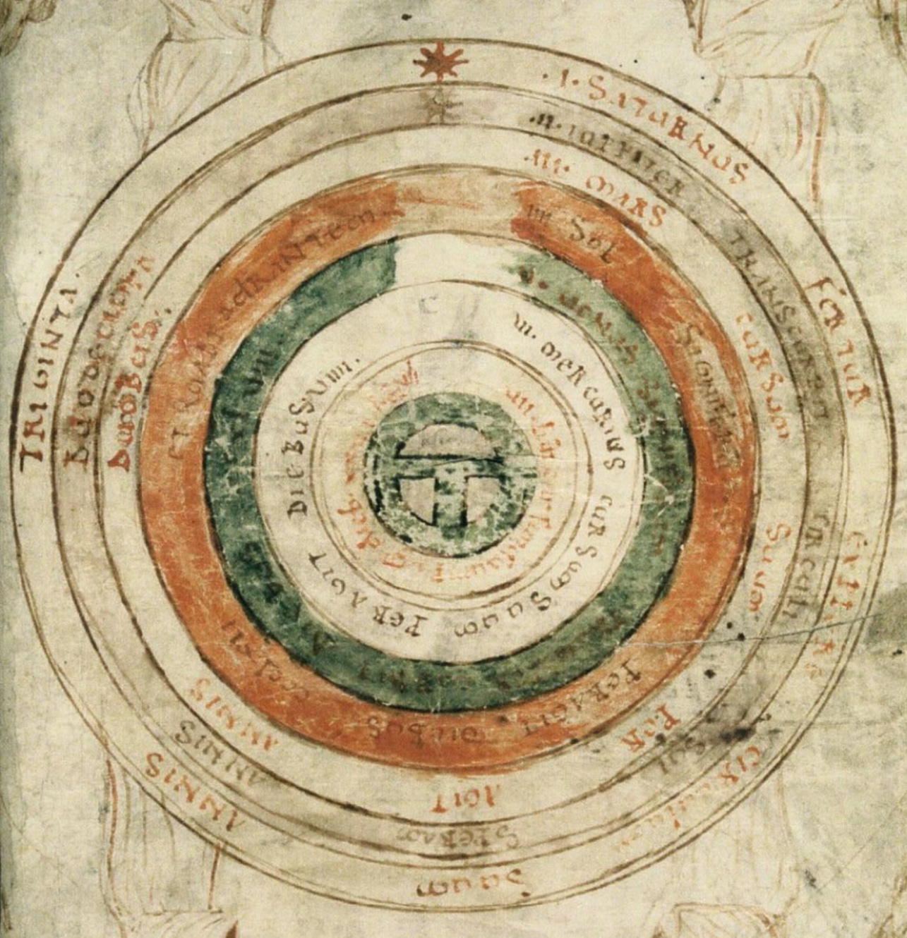 Basic schematic T-O mappa mundi within seven circles of the universe in MS. on vellum: Bede, De natura rerum. The circles are labelled, from outside in, Saturn, Jupiter, Mars, Sol, Venus, Mercury, Moon[?]. Shelfmark: MS. Canon. Misc. 560, fol. 23r